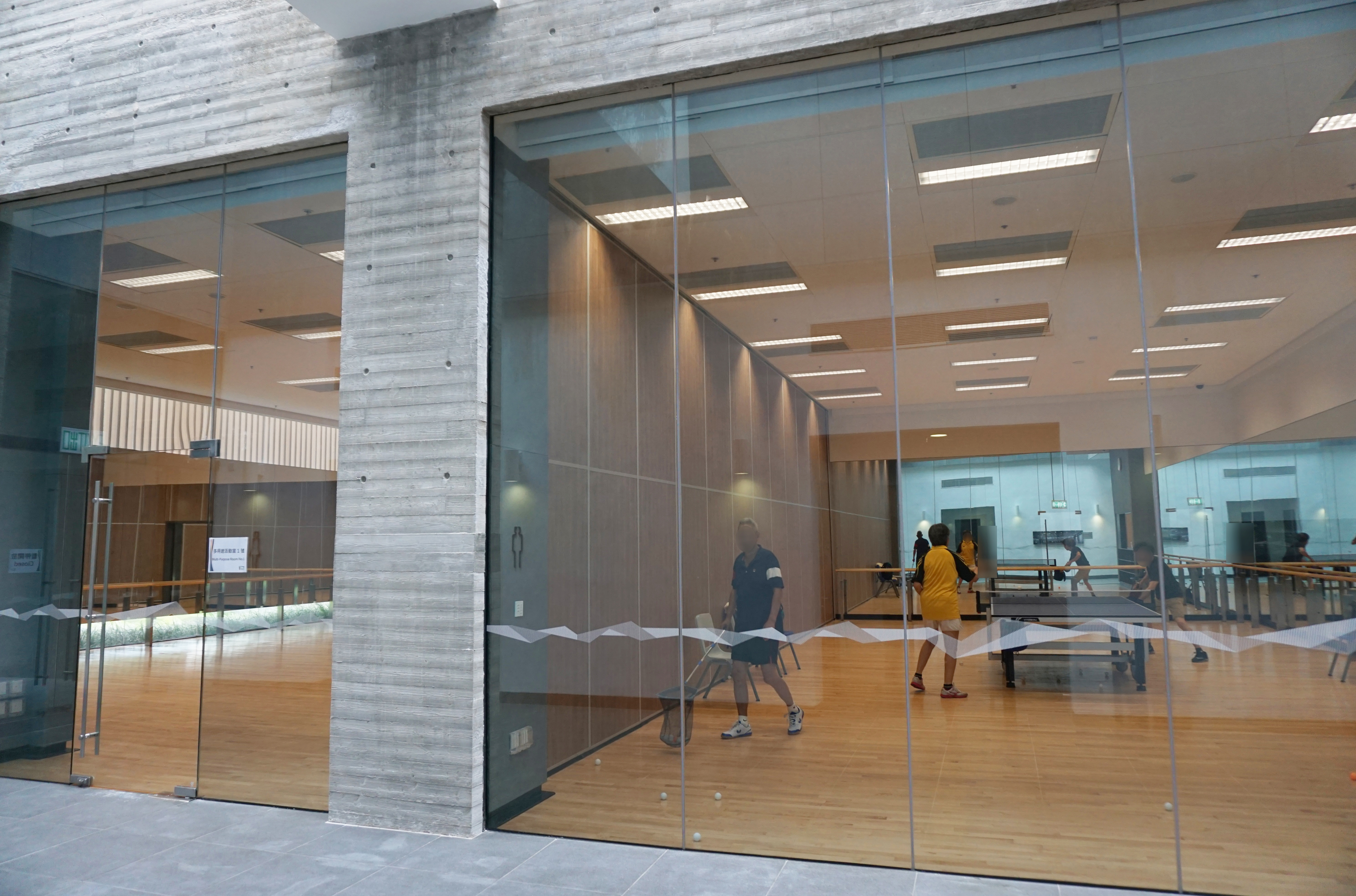 Southwest Leisure Building in Tsing Yi, Hong Kong.